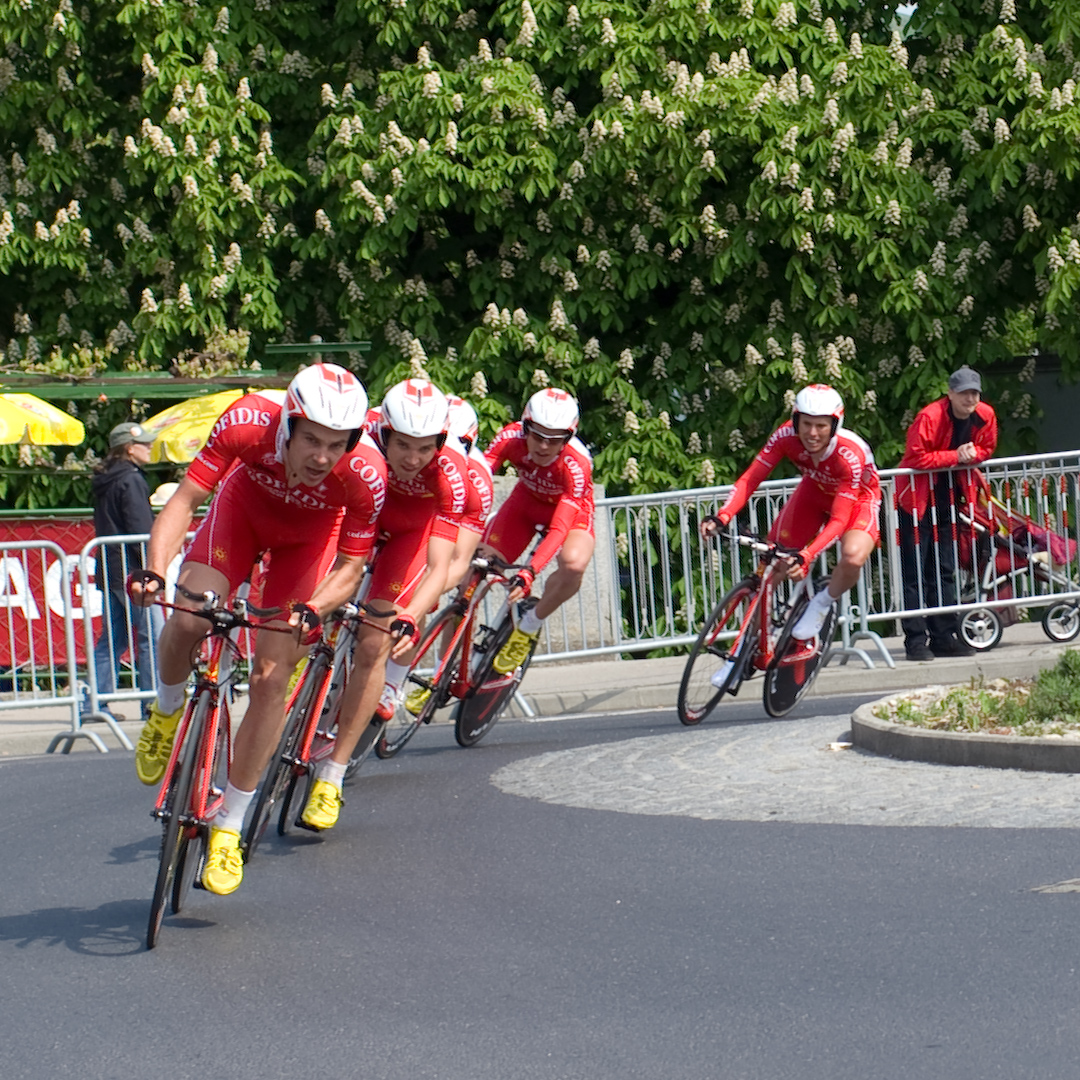 Tour de Romandie 2009 - 3rd stage - team time trial